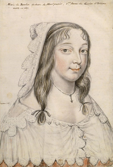 Marie de Bourbon (1605-1627), duchesse de Montpensier and wife of Gaston d'Orléans; mother of la Grande Mademoiselle